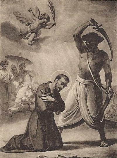 Martyrdom of Saint John de Britto, depicted in a 19th-century(?) prayer card